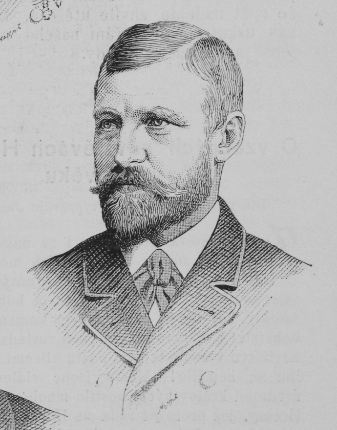 Portrait of Josef Wohanka (1842 - 1931), Czech entrepreneur and politician, member of an executive committee of Anniversary Exhibition in Prague 1891.